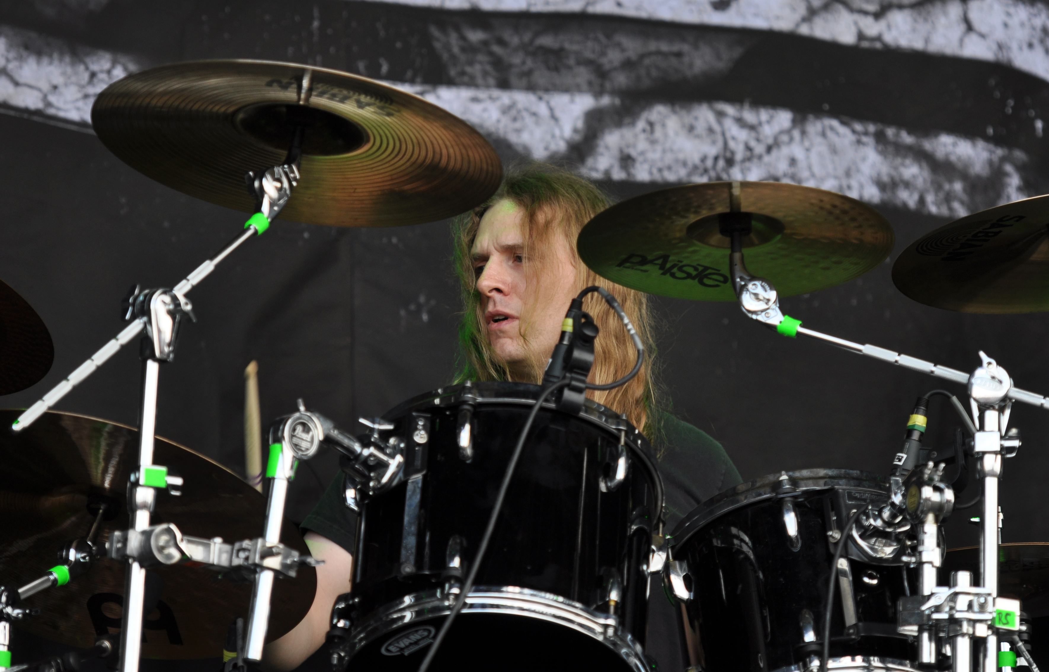 Helrunar at Party.San Metal Open Air 2013